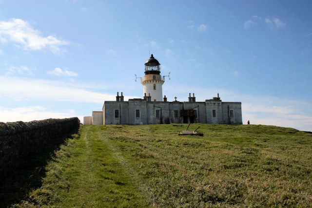 Barra Head lighthouse, Berneray